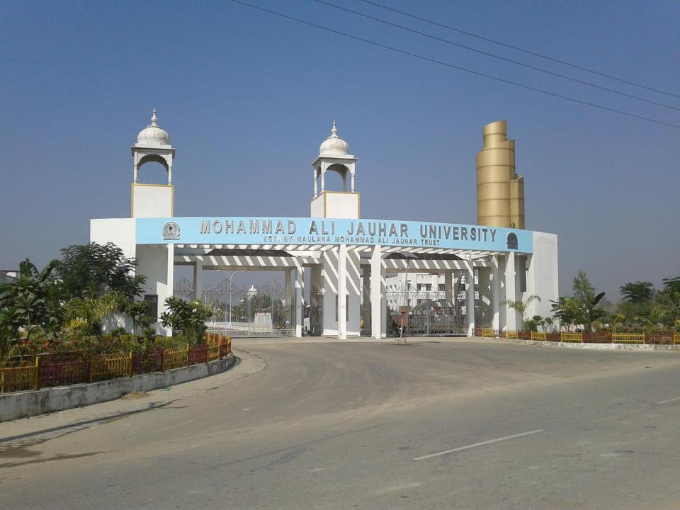 Entry gate of Mohammad Ali Jauhar University